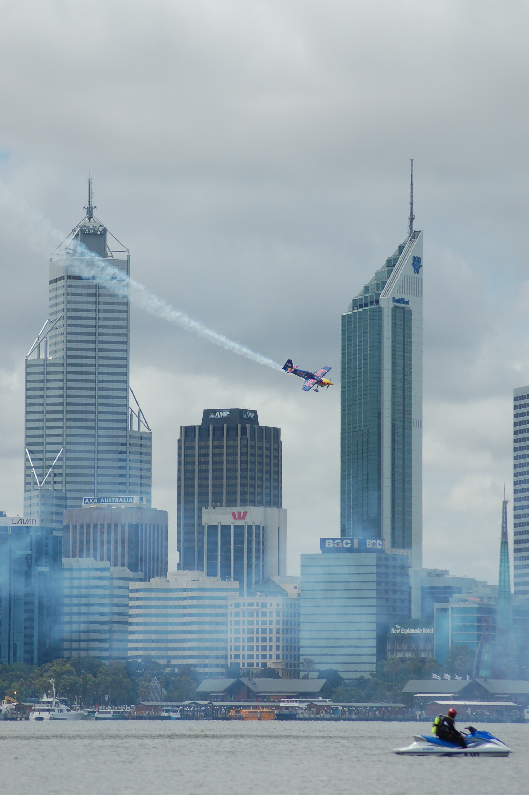 Some of the action in Perth from the 2006 Red Bull Air Race World Series.